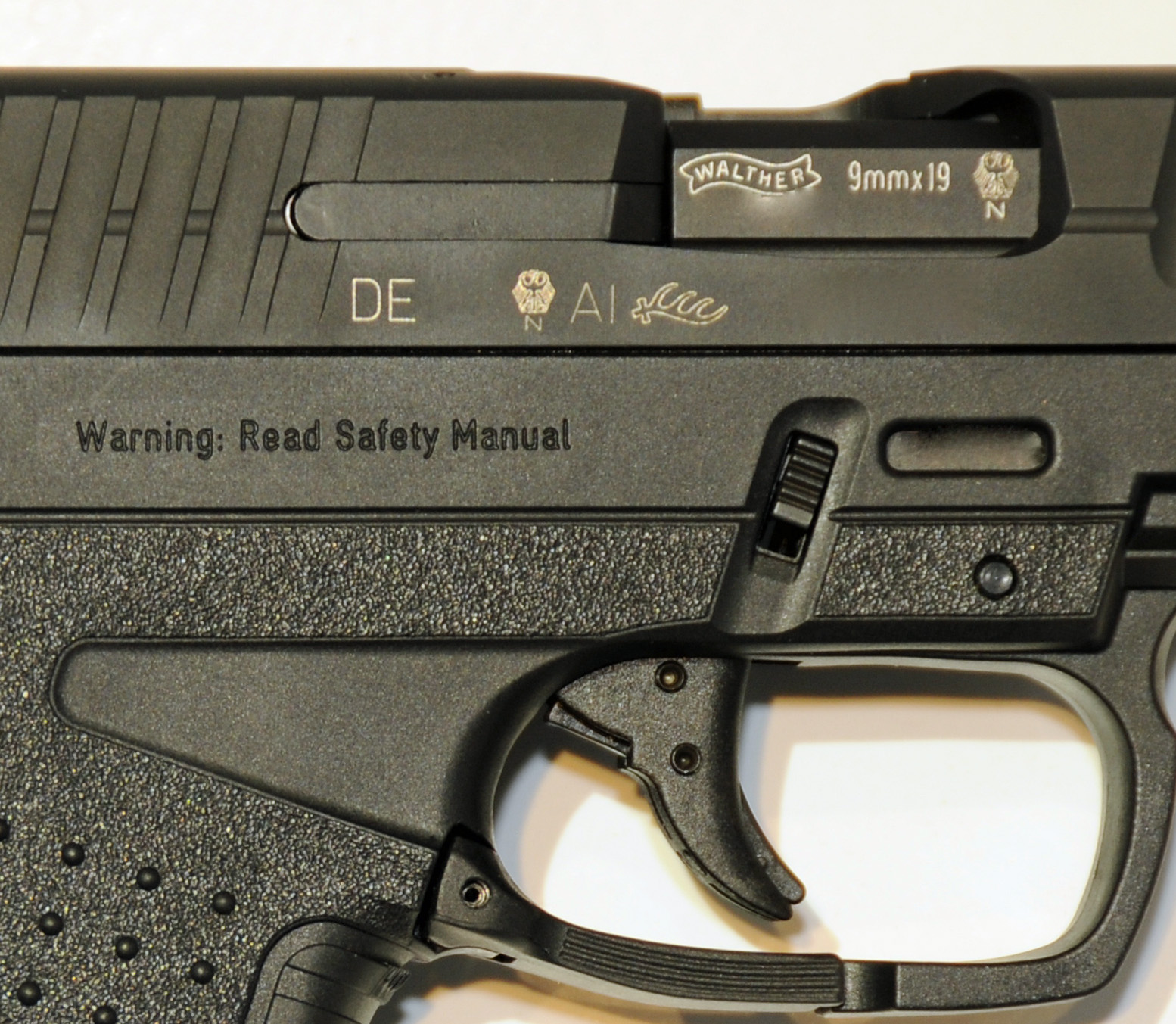 German definitive smokeless powder proof marks (eagle over N figure) issued by the Beschussamt Ulm C.I.P. accredited Proof House (antlers figure) on a Walther PPS pistol. This file has been extracted from another file: WaltherPPS.JPG